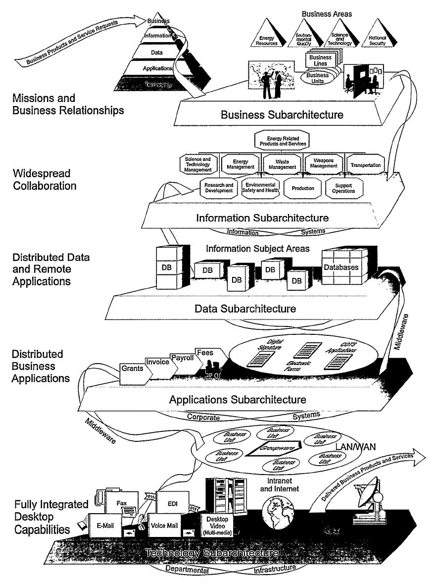 DOE Departemental Enterprise Vision